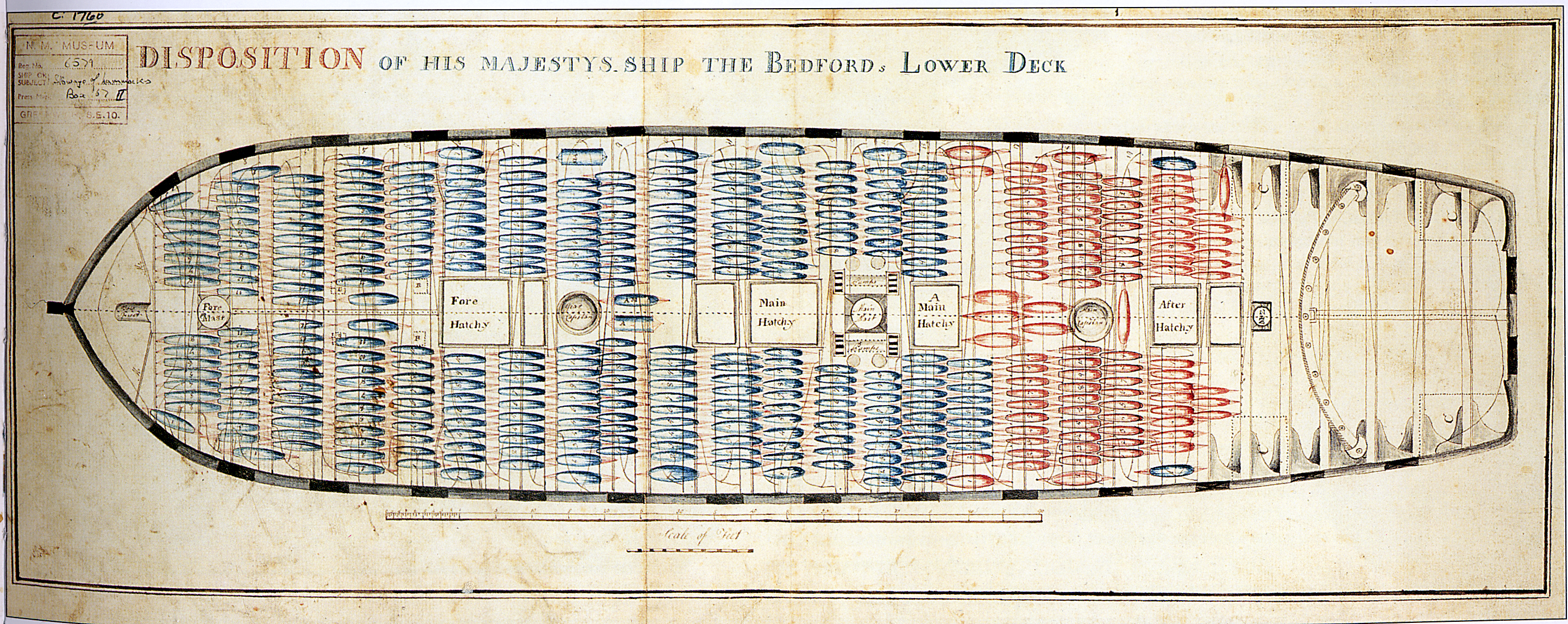 Disposition of His Majesty's Ship Bedford, Lower Deck; line drawing